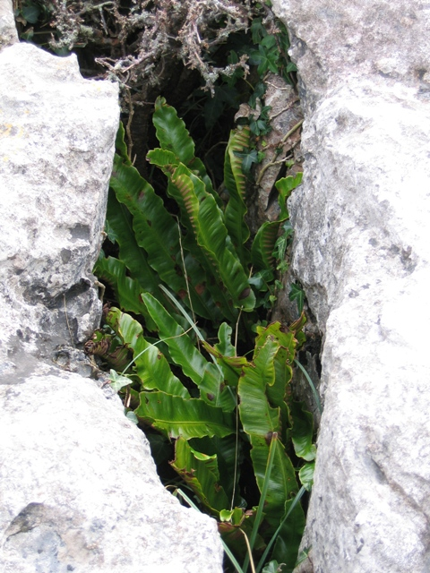 Harts Tongue Fern on the Great Orme This Harts Tongue Fern is well sheltered in one of the grykes in the limestone pavement on the Great Orme.